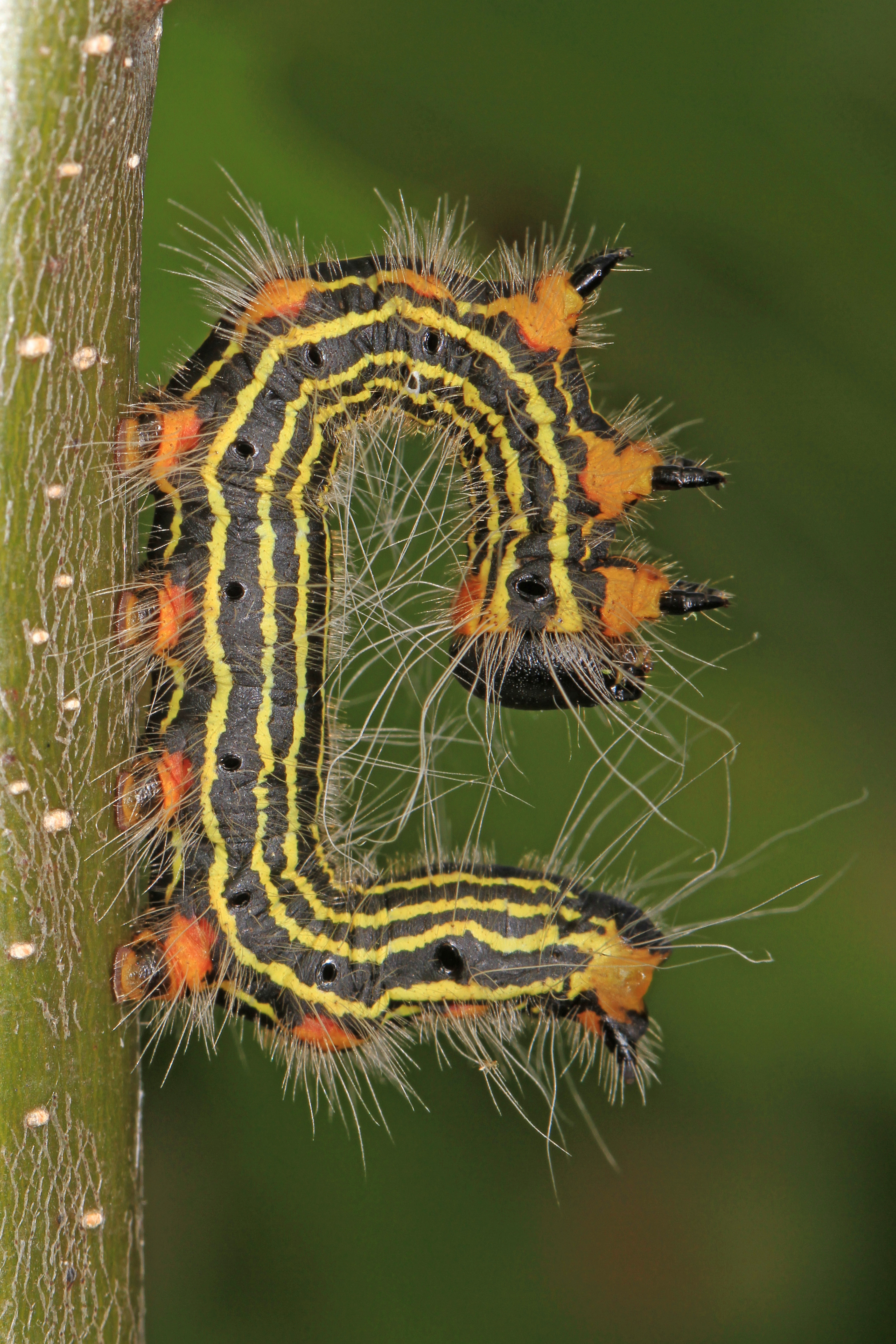 Yellow-necked Caterpillar - Datana ministra, Occoquan Bay National Wildlife Refuge, Woodbridge, Virginia